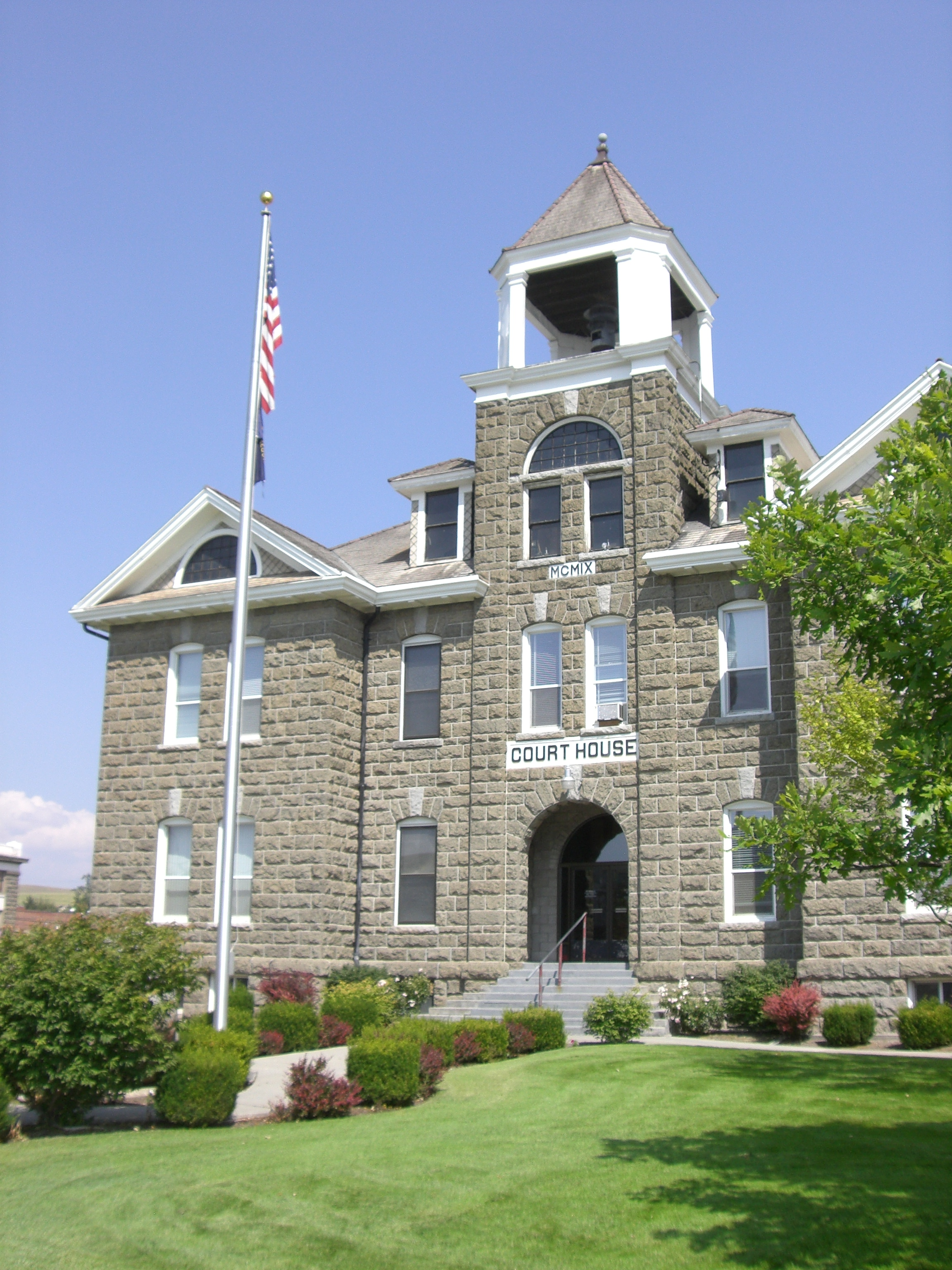 Main entrance to Wallowa County Courthouse in Enterprise, Oregon